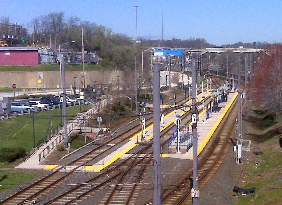 View of the North Avenue Baltimore Light Rail station from the North Avenue bridge over the Jones Falls, looking north.